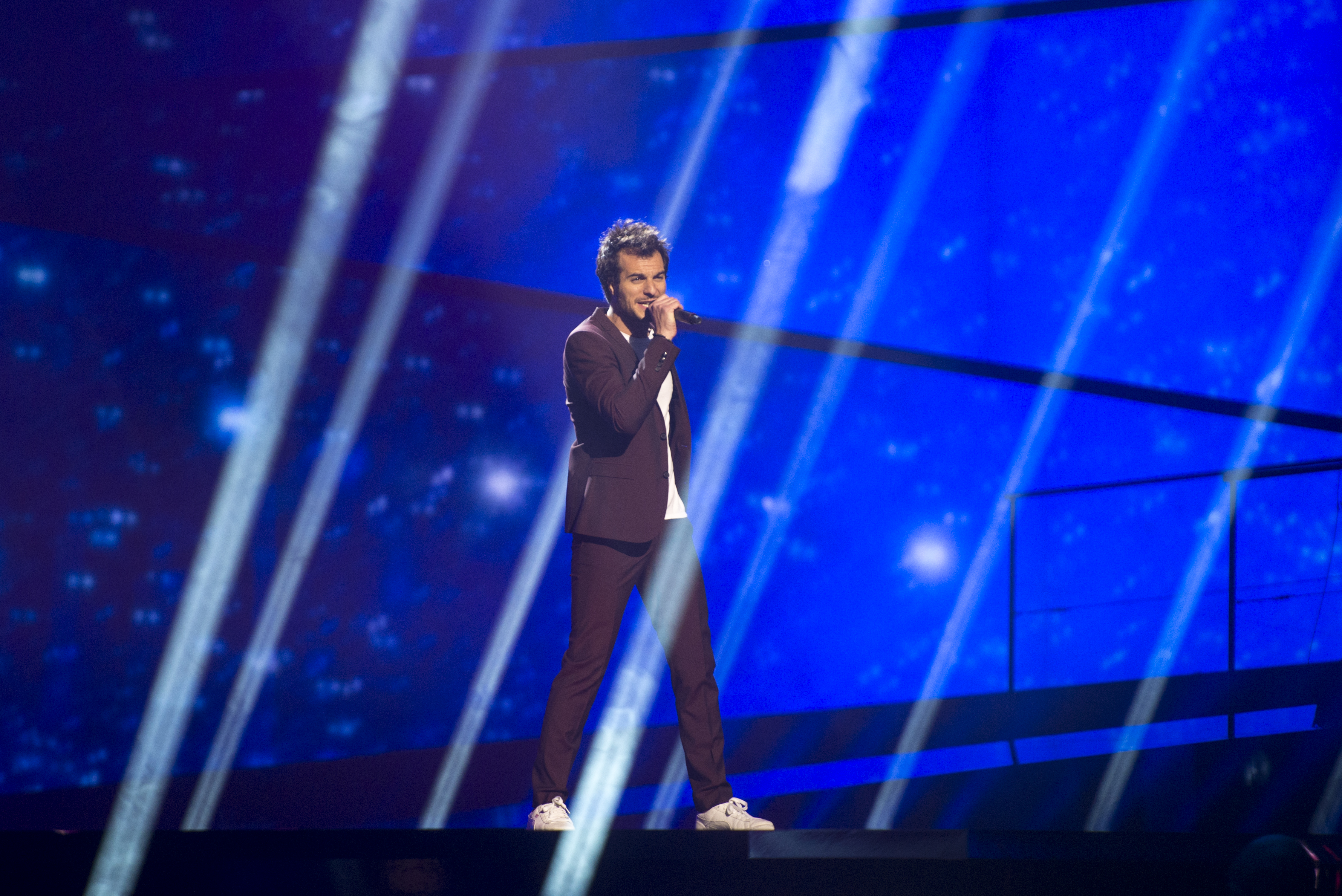 Amir representing France with the song "J'ai cherché" during the first dress rehearsal of the final of the Eurovision Song Contest 2016 in Stockholm. (Help translate this text)